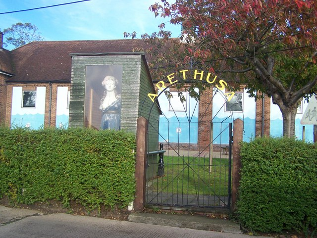 The Arethusa Venture Centre Sailing centre for children and disabled people. See website